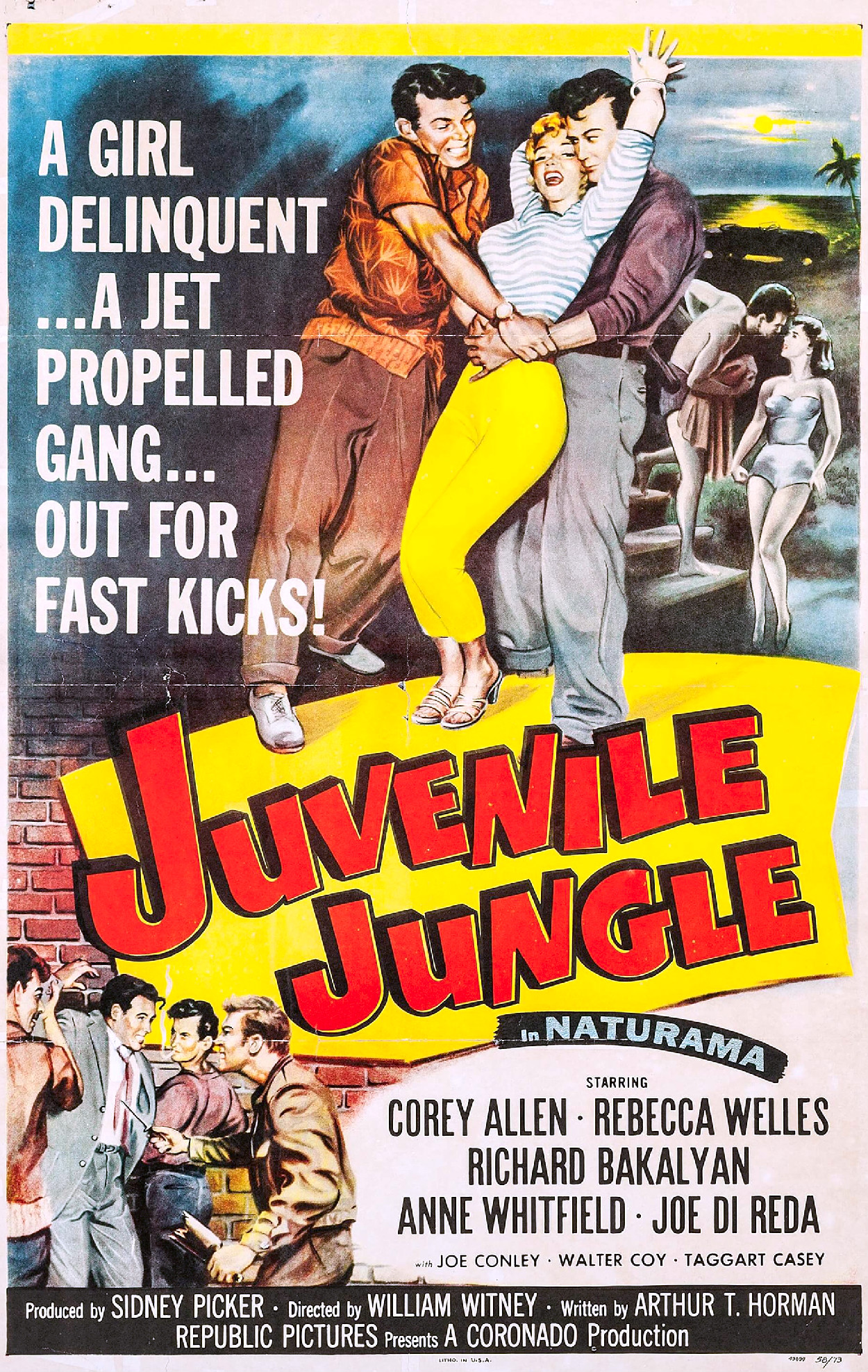 Poster for the 1958 film Juvenile Jungle. There are no copyright marks. At bottom is Litho in USA and 49893 58/73.